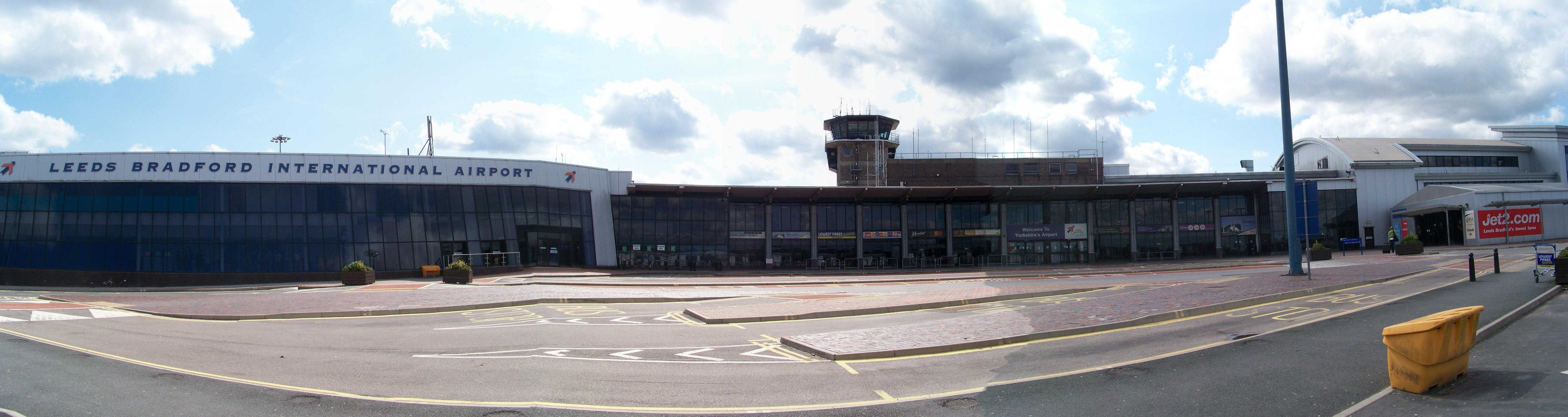 A panoramic photograph of the terminal buildings at Leeds Bradford Airport, taken around midday on Saturday 22nd August 2009.